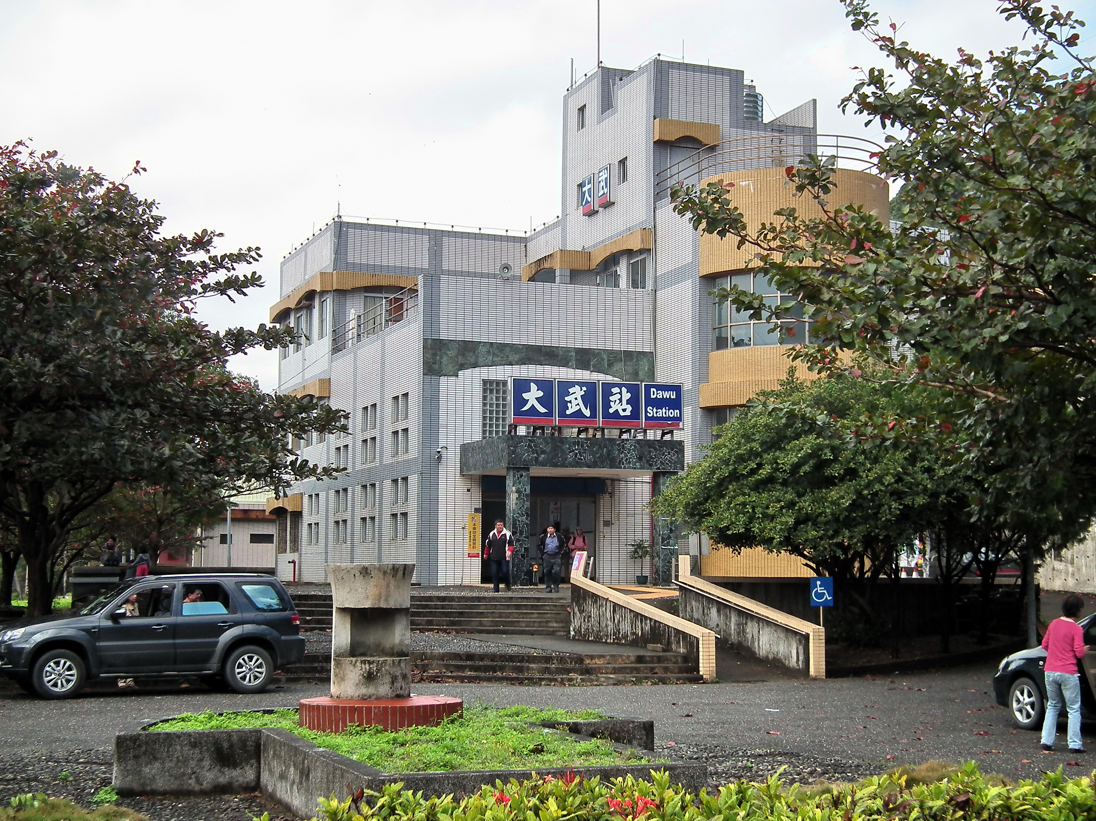 Dawu Railway Station 大武站